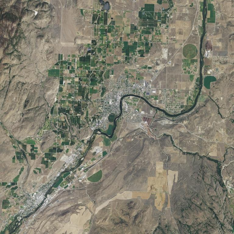 USGS digital orthophoto of Omak in the U.S. state of Washington